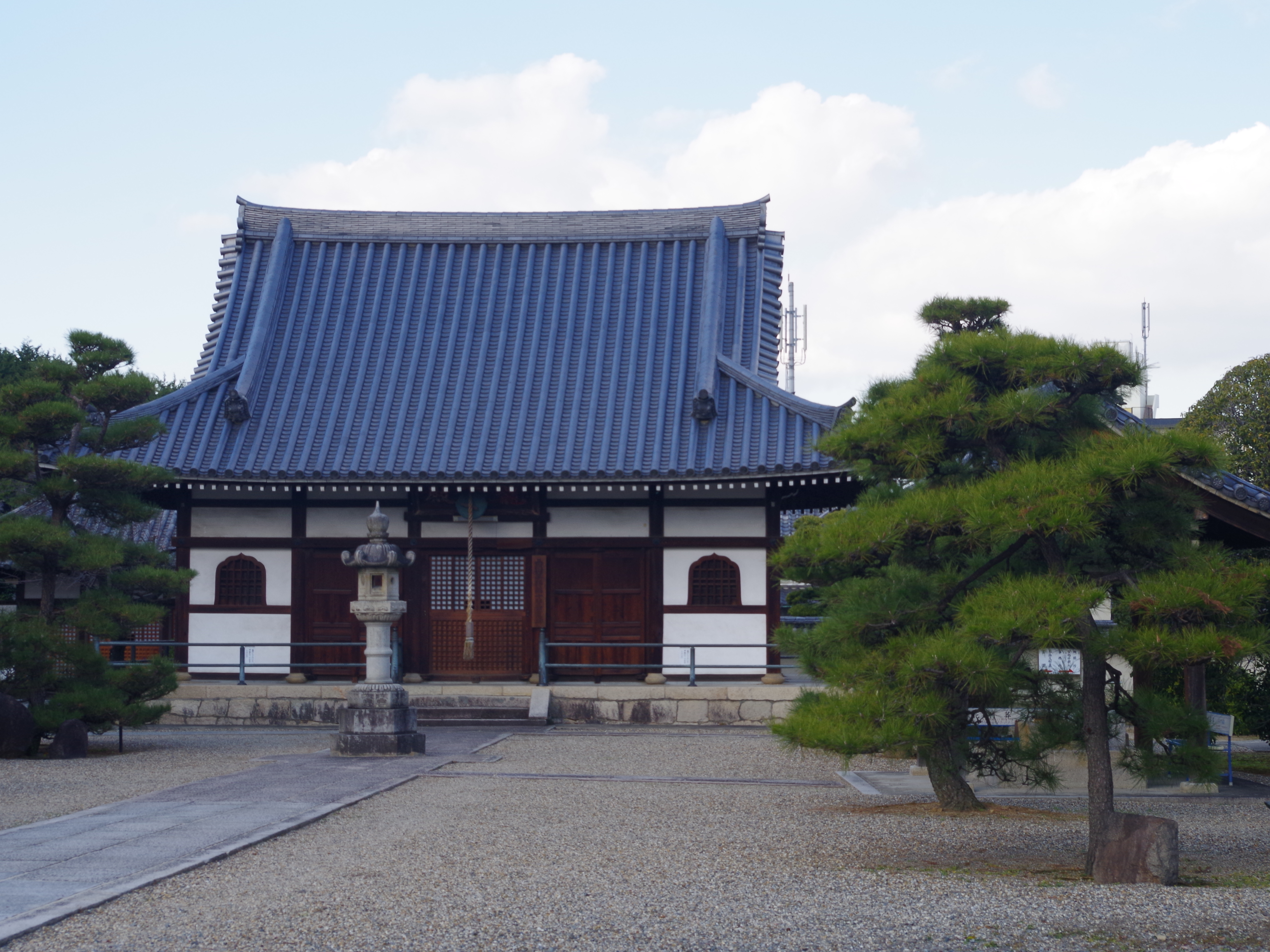 羽曳野市野々上5丁目 野中寺の本堂 Main hall of Yachū-ji 2012.12.11